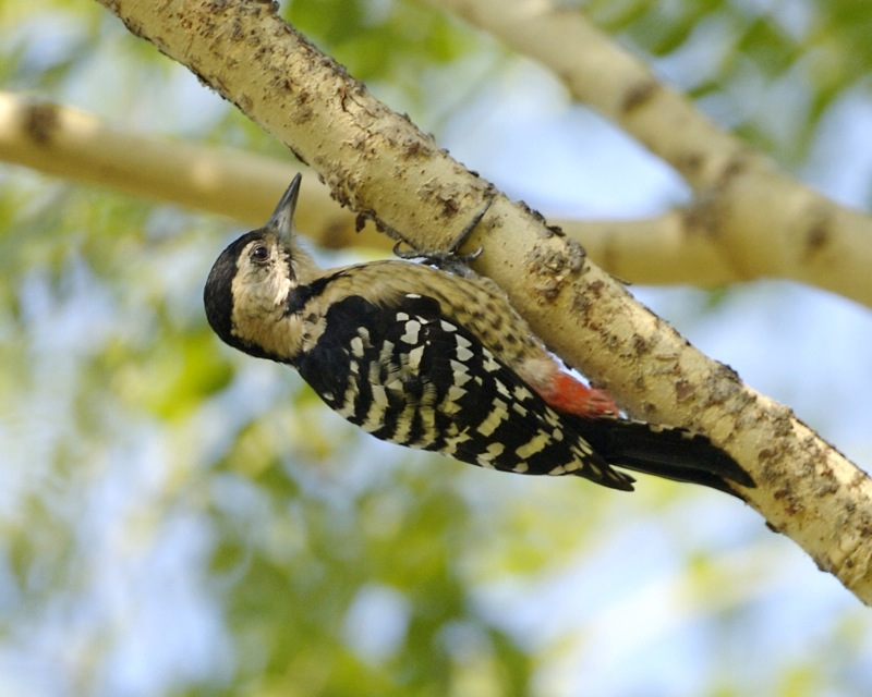 Fulvous-breasted Woodpecker - female Dendrocopos macei ssp Dendrocopos macei macei 10th. December 2007 Jahangir University campus, Dhaka, Bangladesh Q0S2650